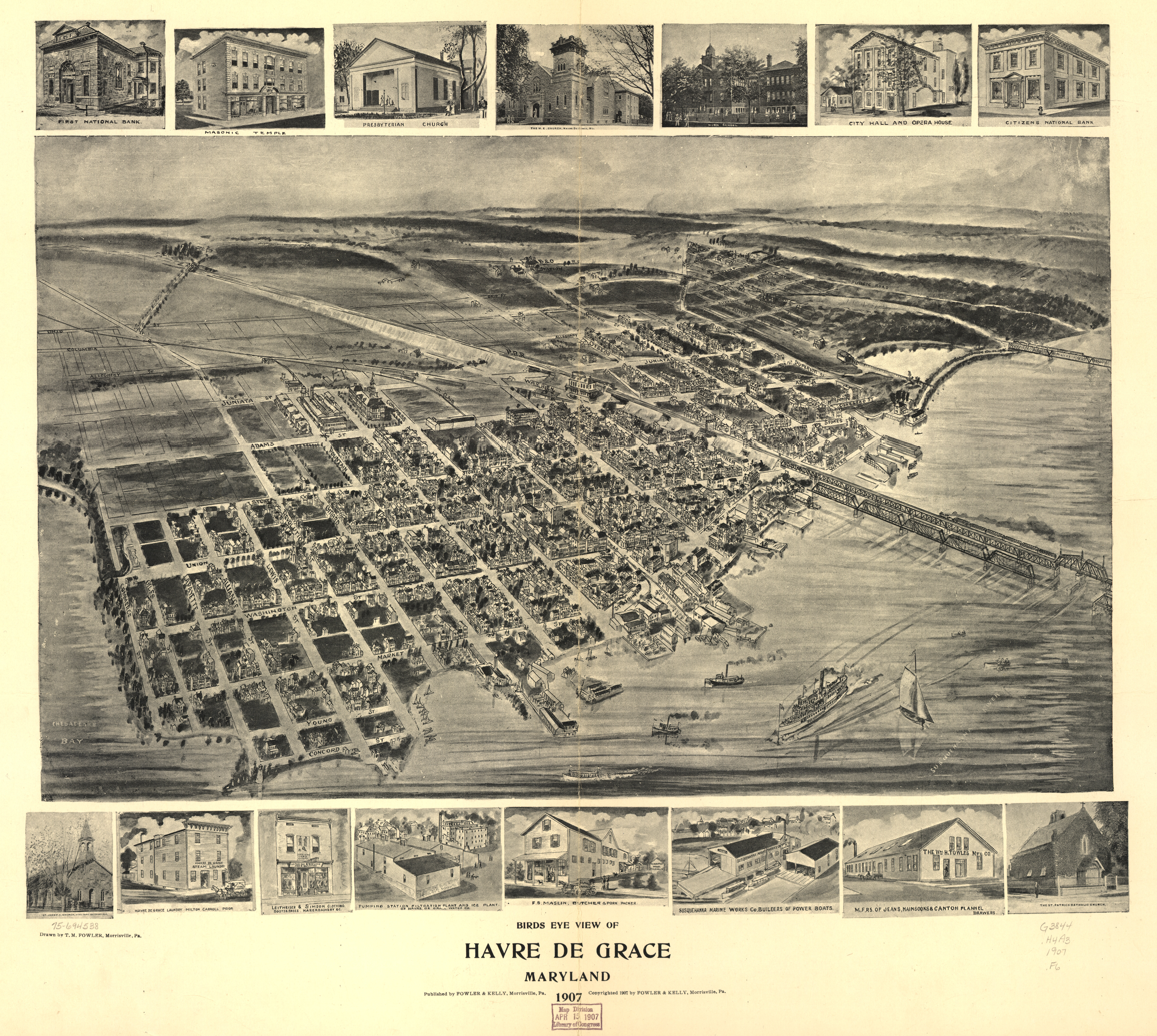 An old map of Havre de Grace, Maryland, United States. The Pennsylvania Railroad bridge (now called the Amtrak Susquehanna River Bridge) and the B&O Railroad Bridge (now called the CSX Susquehanna River Bridge) are seen on the right.